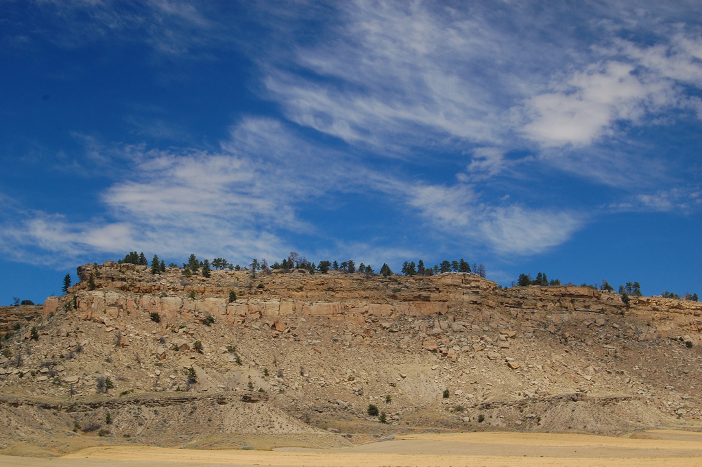 A photo of the battlefield where the Nez Perce Indians fought against the U.S. army in 1877.